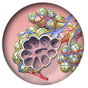 Bronchial anatomy detail of alveoli and lung circulation.